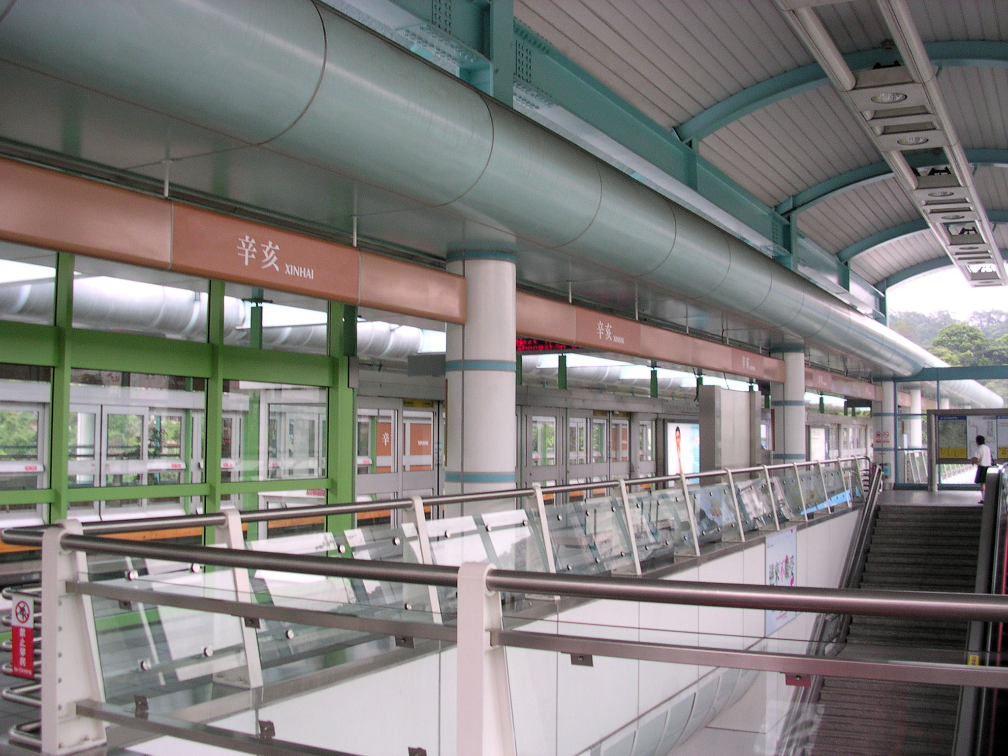 Inside Taipei MRT Xinhai Station.